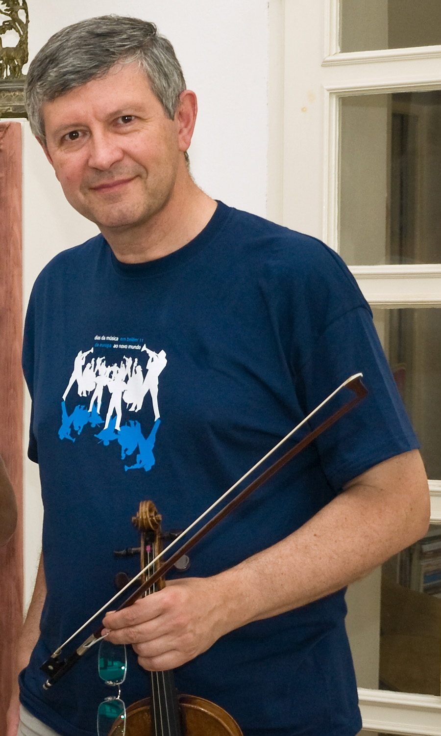 Czech violinist Pavel Hůla after a private practice of Pražák Quartet